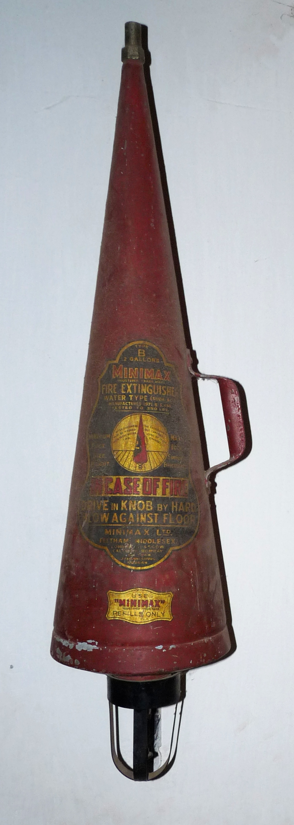 Old fire extinguisher in the Orissa State Museum, Bhubaneswar (not part of the exposition, actually)